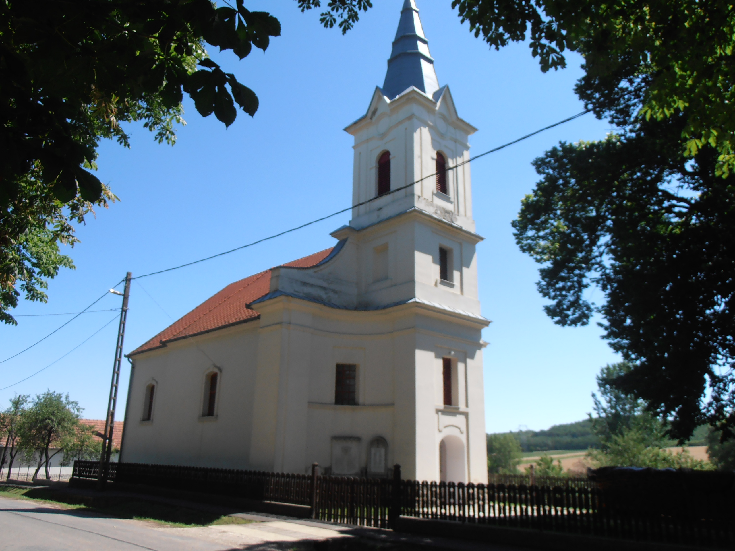 Lutheran temple in Ősagárd, Hungary Ősagárdi evangélikus templom